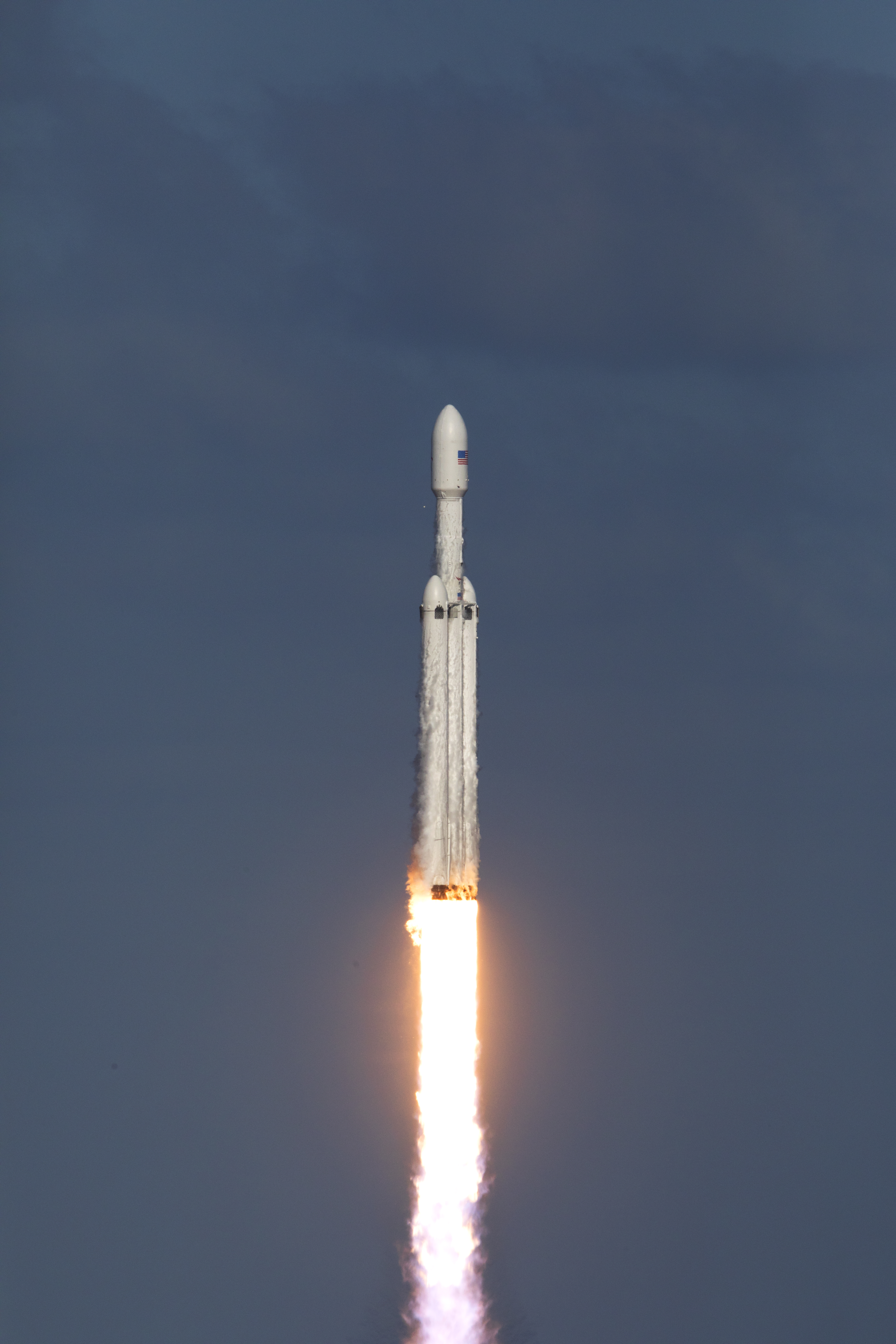 A SpaceX Falcon Heavy rocket begins its demonstration flight with liftoff at 3:45 p.m. EST from from Launch Complex 39A at NASA's Kennedy Space Center in Florida. This is a significant milestone for the world's premier multi-user spaceport. In 2014, NASA signed a property agreement with SpaceX for the use and operation of the center's pad 39A, where the company has launched Falcon 9 rockets and prepared for the first Falcon Heavy. NASA also has Space Act Agreements in place with partners, such as SpaceX, to provide services needed to process and launch rockets and spacecraft.